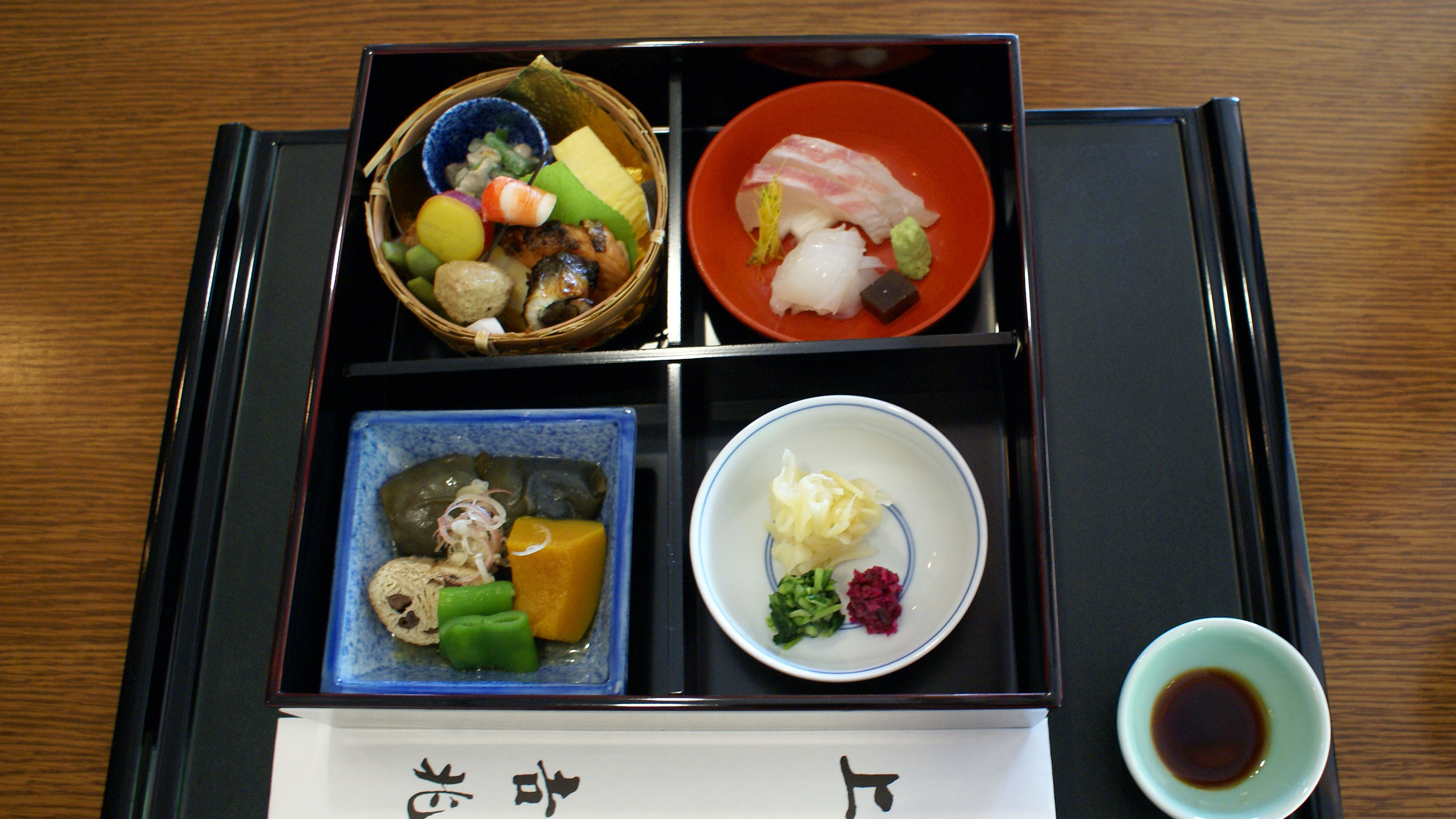 Shokado-Bento at Restaurant Kitcho of Shokado Garden in Yawata, Kyoto prefecture, Japan